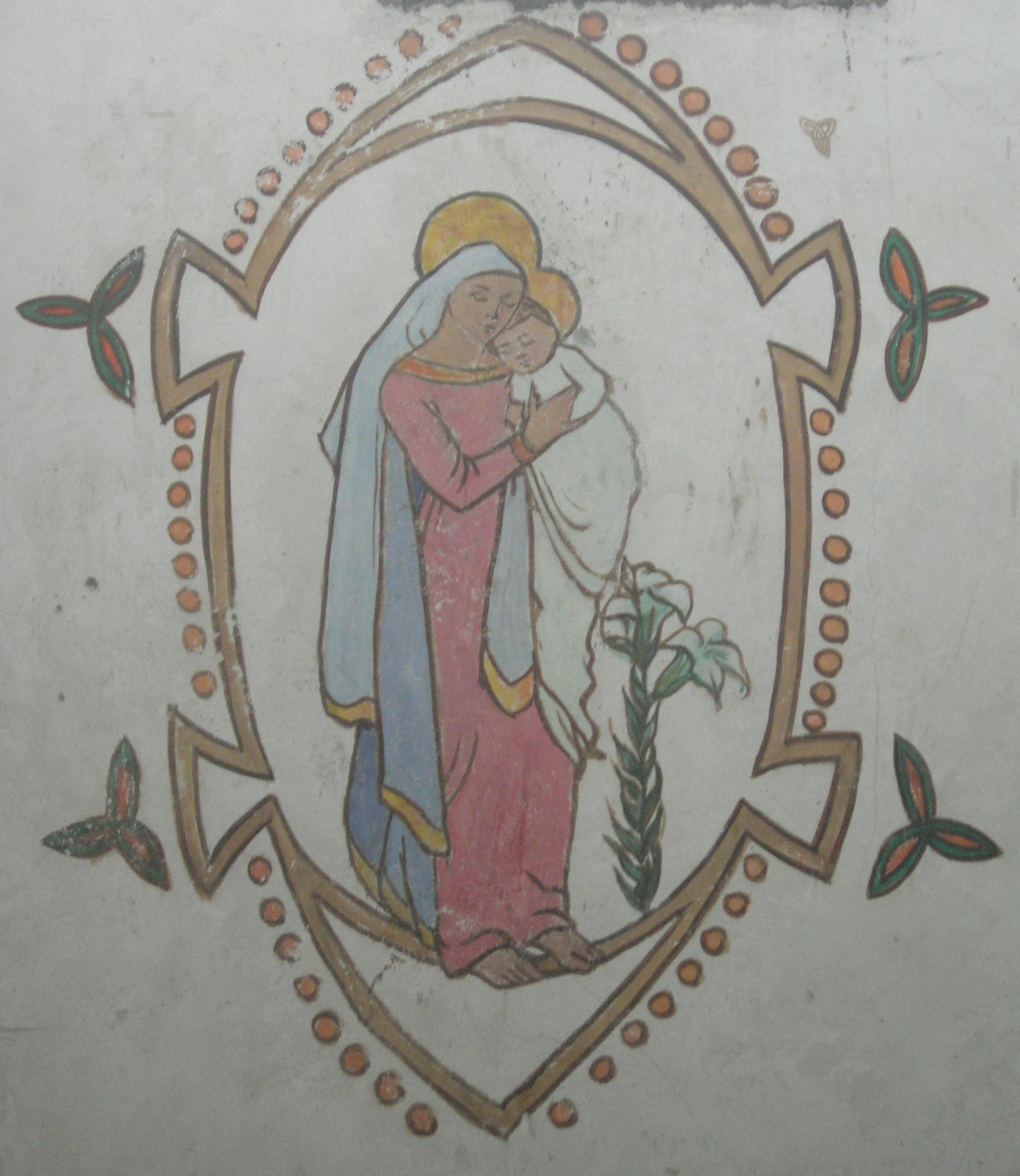 Description =Prison de Kilmainham. Dessin sur le mur de la cellule de Mrs Joeseph Mary Plunkett Source =Photo taken by Remi Jouan Date =Mai 2006 Author =Remi Jouan